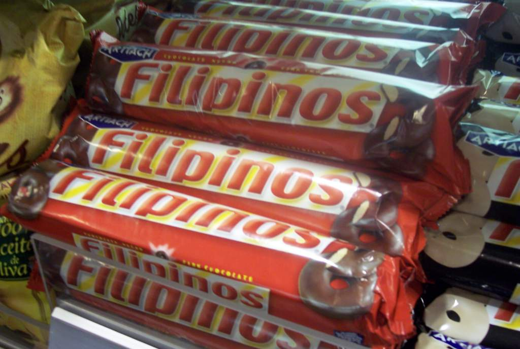 Artiach Filipinos biscuit / cookie / doughnut / donut chocolate snack. Spain